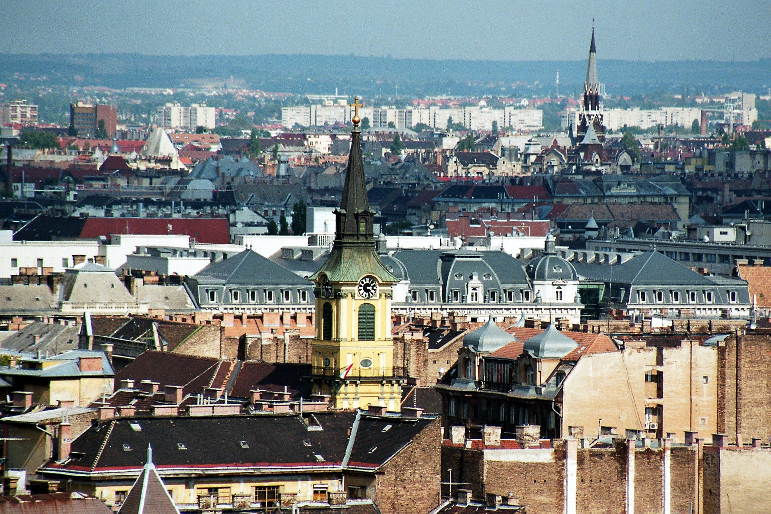 Budapest, view from the St. Stephen's Basilica to the Church of Terézváros